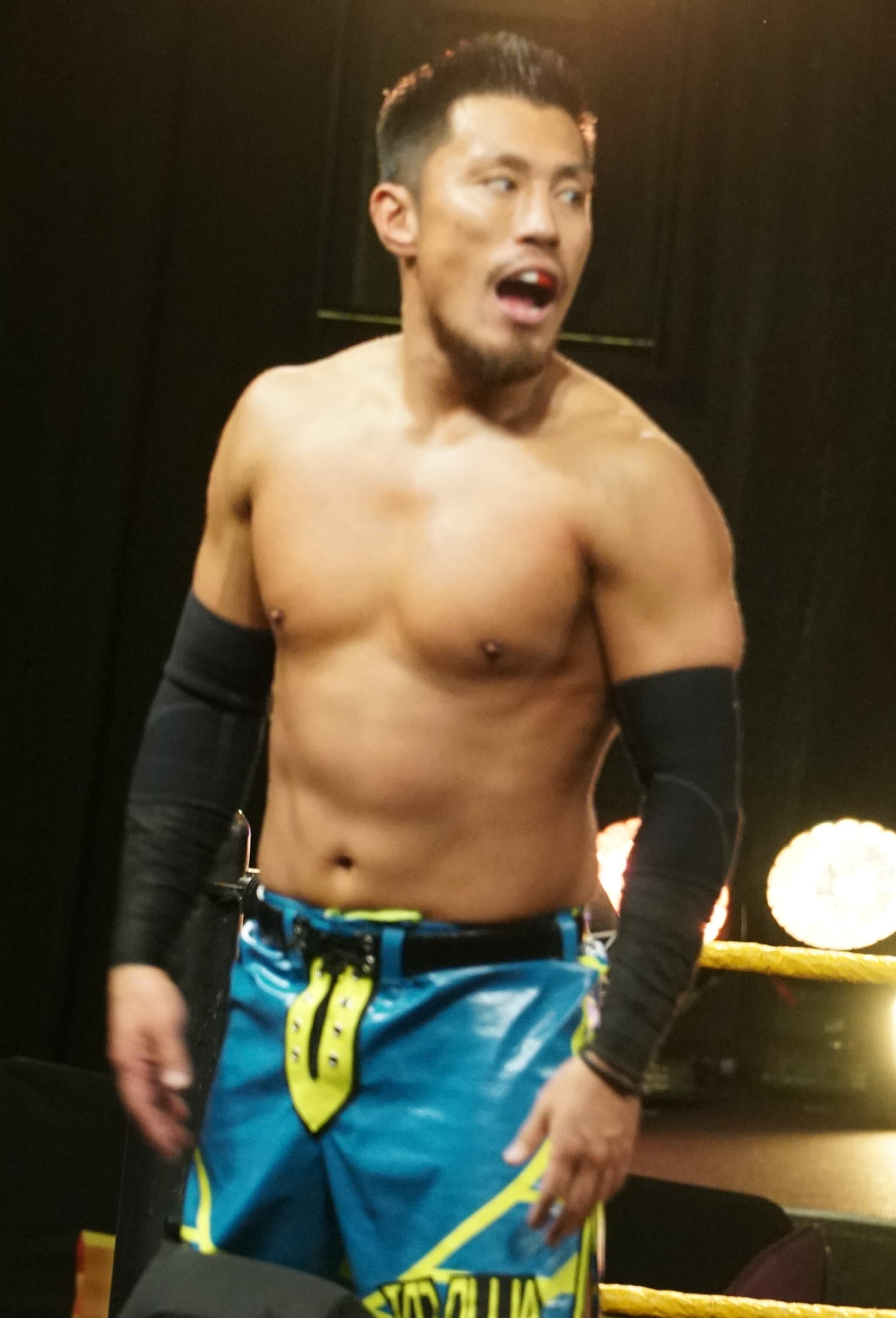 NOLA 2018 - WWE Axxess - Thursday - Akira Tozawa Vs Kona ReevesAkira Tozawa def. Kona Reeves( Deux semaines a Nola pour la ville et pour WWE Wrestlemania XXXIVTwo weeks Nola for the city and for WWE Wrestlemania XXXIV )